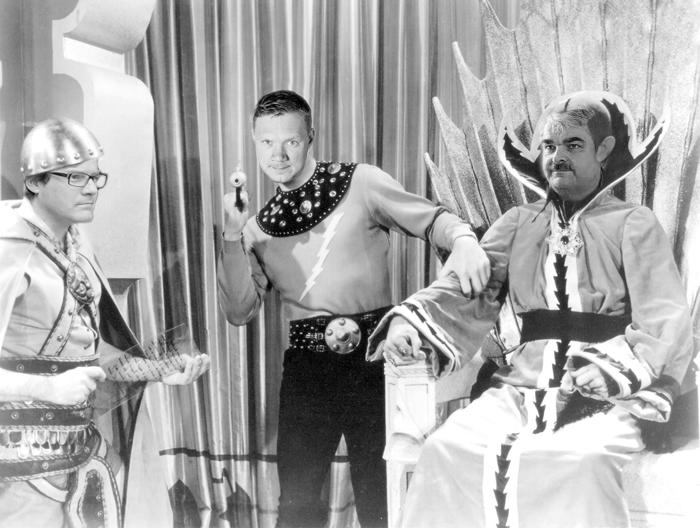 Remix of an old Flash Gordon picture, with the faces replaced by Jan Helin, chief editor of Aftonbladet, Niclas Eriksson journalist Expressen and Håkan Juholt then current party leader of Socialdemokraterna. This was a comment on a media frenzy and the Juholt's fall from the power. The use of Flash Gordon was based on Eriksson's consistant use of the word "FLASH" in his tweets.